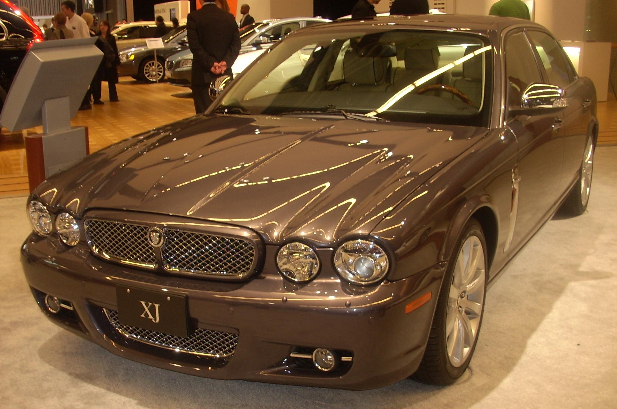 2008 Jaguar XJ photographed at the Montreal Auto Show.